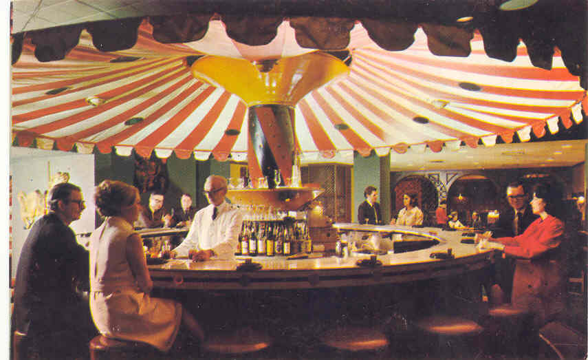 Locals and tourists alike have long enjoyed the Carousel Piano Bar & Lounge. French Quarter of New Orleans.